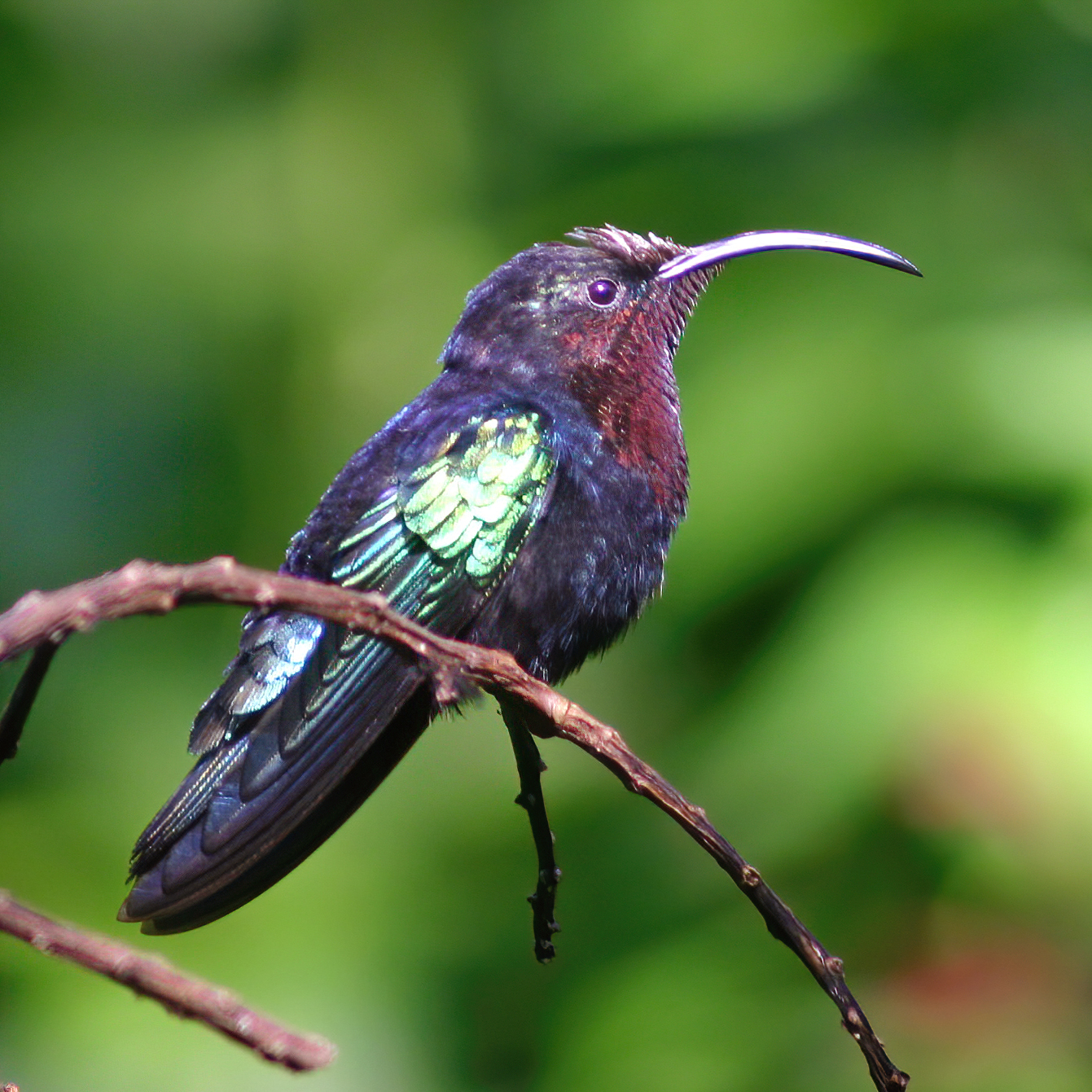 Purple-throated Carib hummingbird (Eulampis jugularis), female, photographed in its natural habitat in the Morne Diablotins National Park in Dominica. Guide was local expert 'Dr Birdy' Bertrand Baptiste.